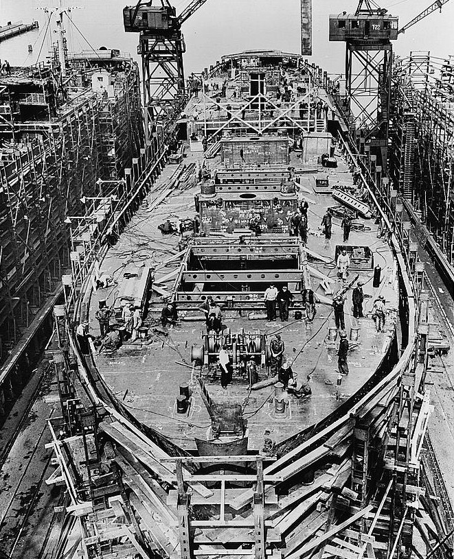 Construction of a Liberty ship at Bethlehem-Fairfield Shipyards Inc., Baltimore, Maryland (USA) in March/April 1943. Original caption: “On the fourteenth day the upper deck has been erected and mast houses and the after-deck house are in place. Electrical conduits and engine and boiler room piping are being installed.”